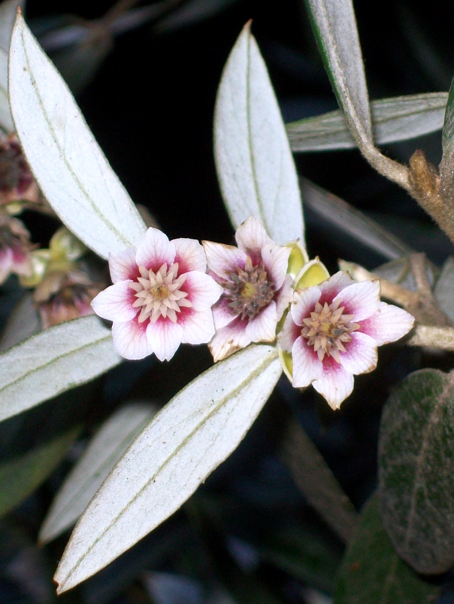 Atherosperma moschatum subsp. integrifolium in flower, near a waterfall at Leura. Growing next to Callicoma, Elaeocarpus holopetalus & Leptopteris fraseri